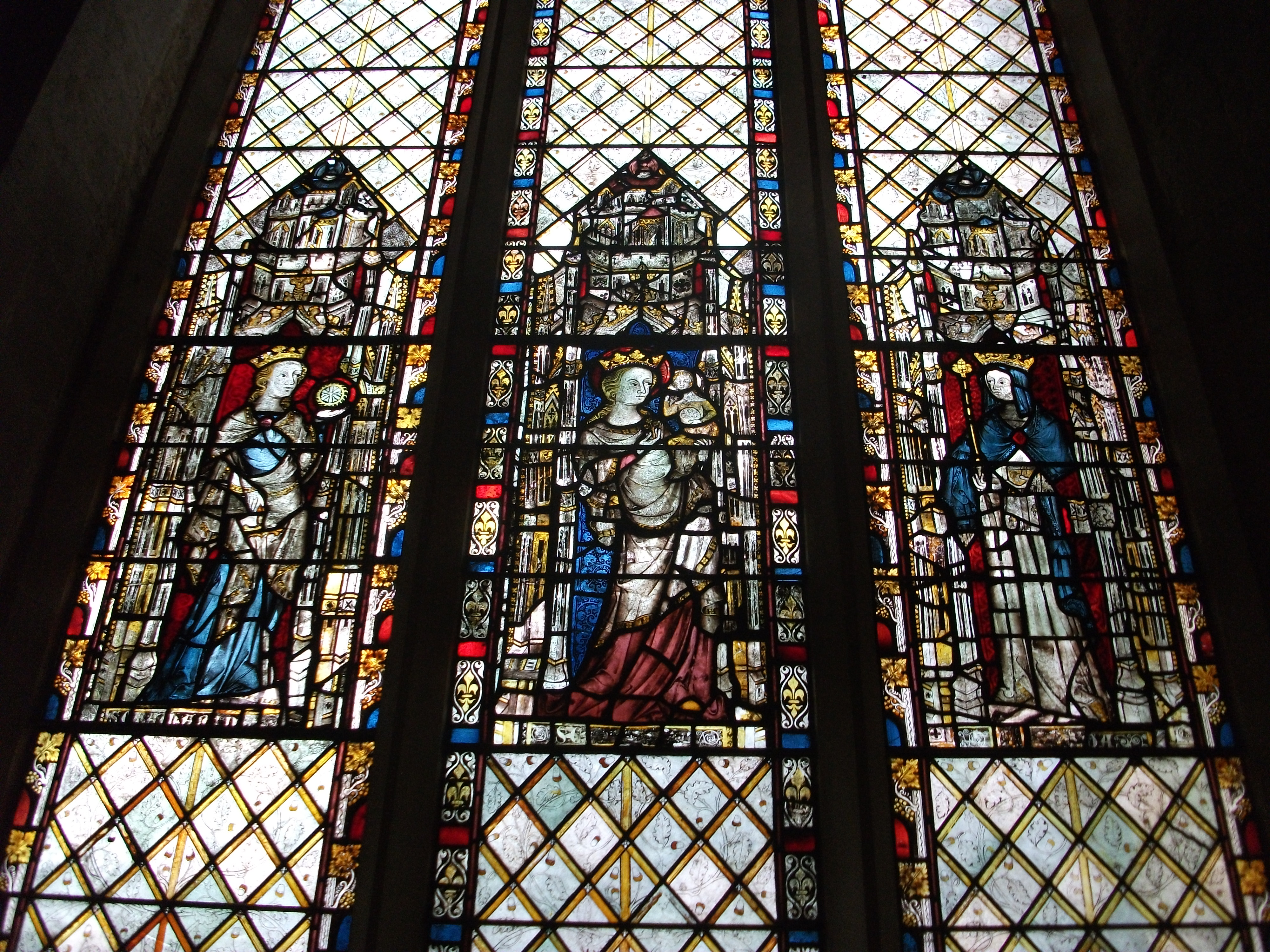 Christ Church Cathedral Wikidata has entry Q1736208 with data related to this item.